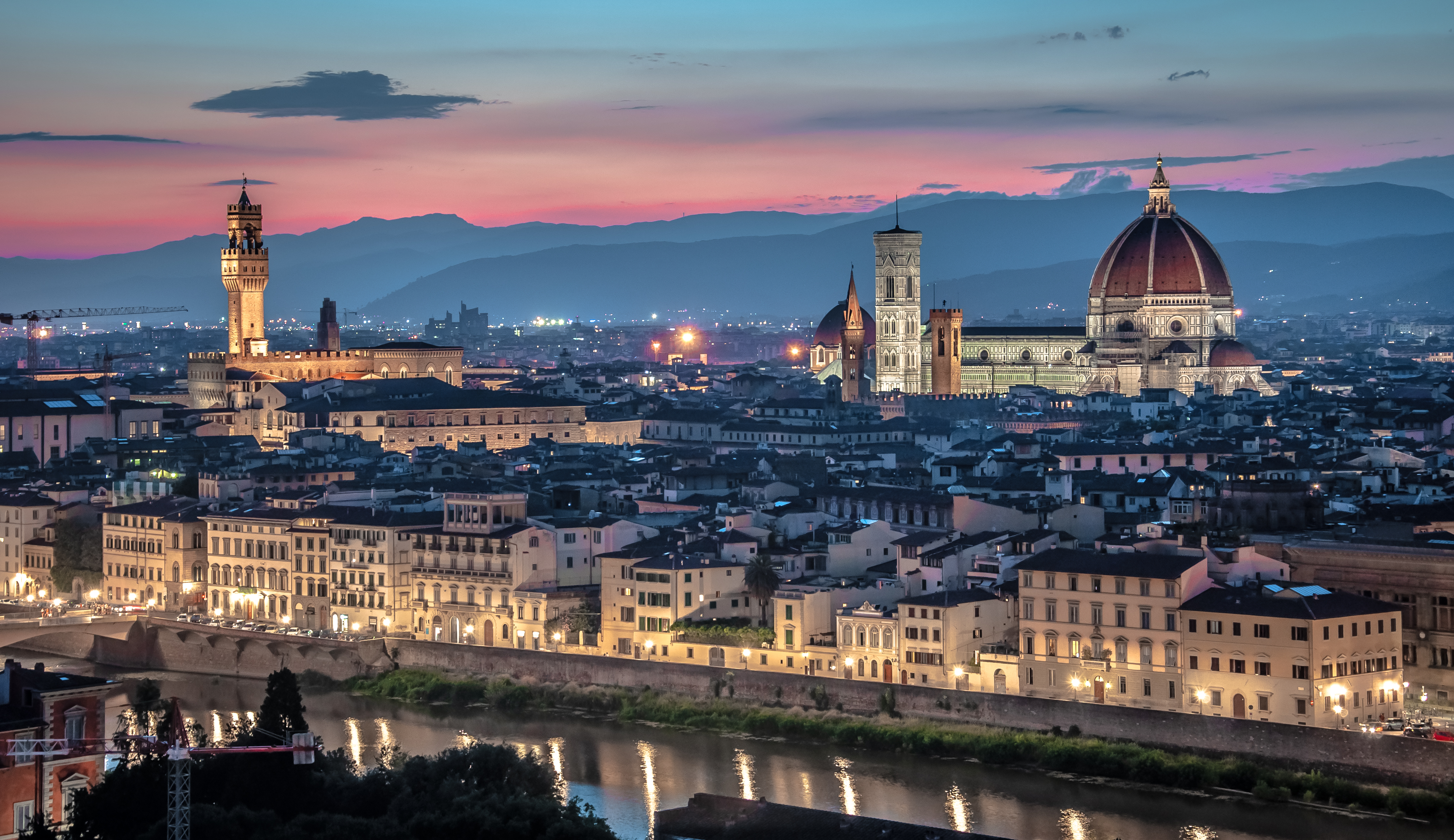 Florence in the evening